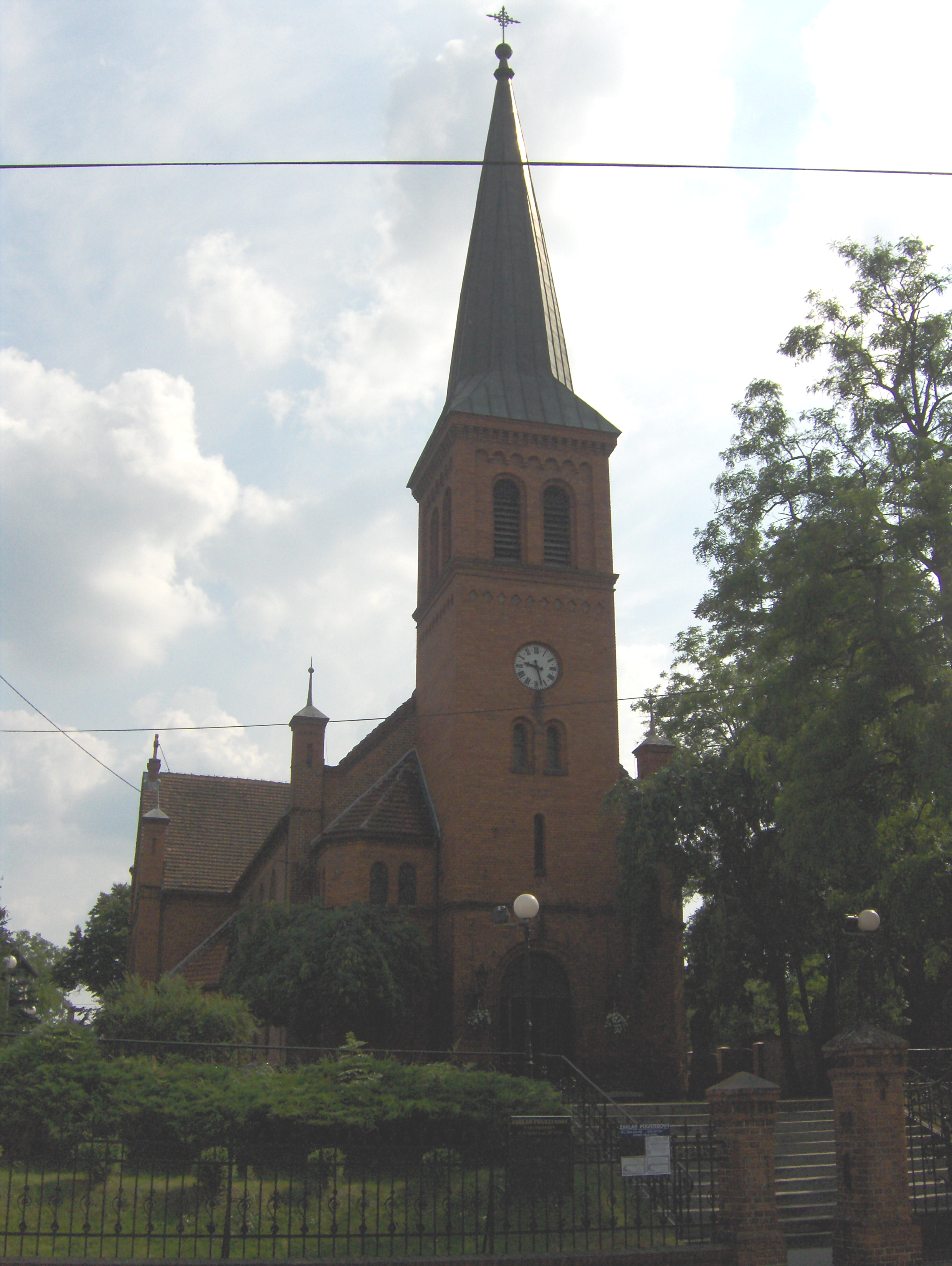 Sacred Heart of Jesus Church, Solec Kujawski, Poland